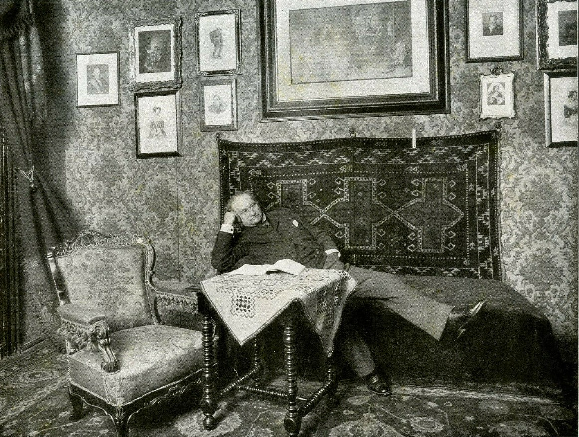 Bernhard Baumeister by Charles Scolik, 1912